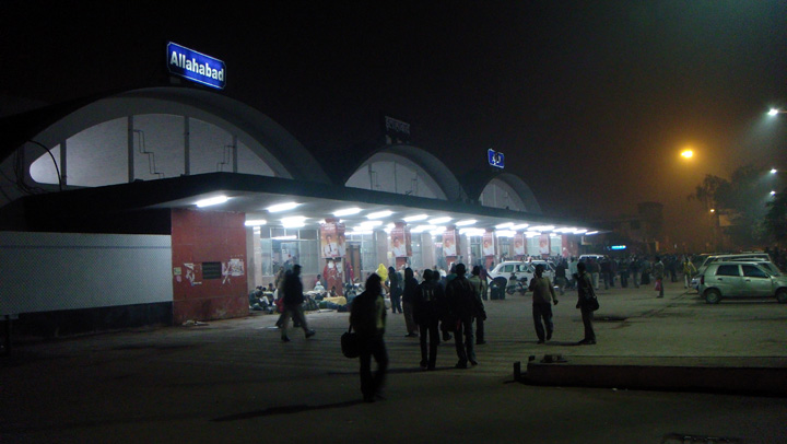 Allahabad Railway Station at Brahmamuhurtha